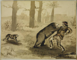 Sketches of Hudson Bay Life: "A rough and tumble with a grizzly"